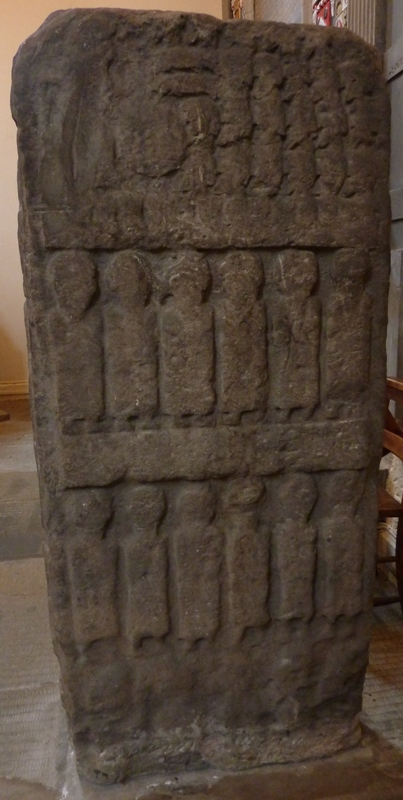 Dunkeld Cathedral, Dunkeld, Perth and Kinross, Scotland - the Apostles' Stone, a pictish stone